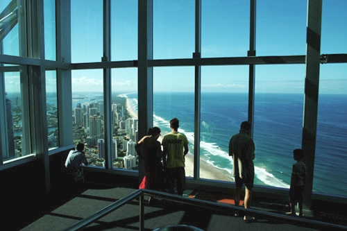 The image is from EN Wikipedia [1].